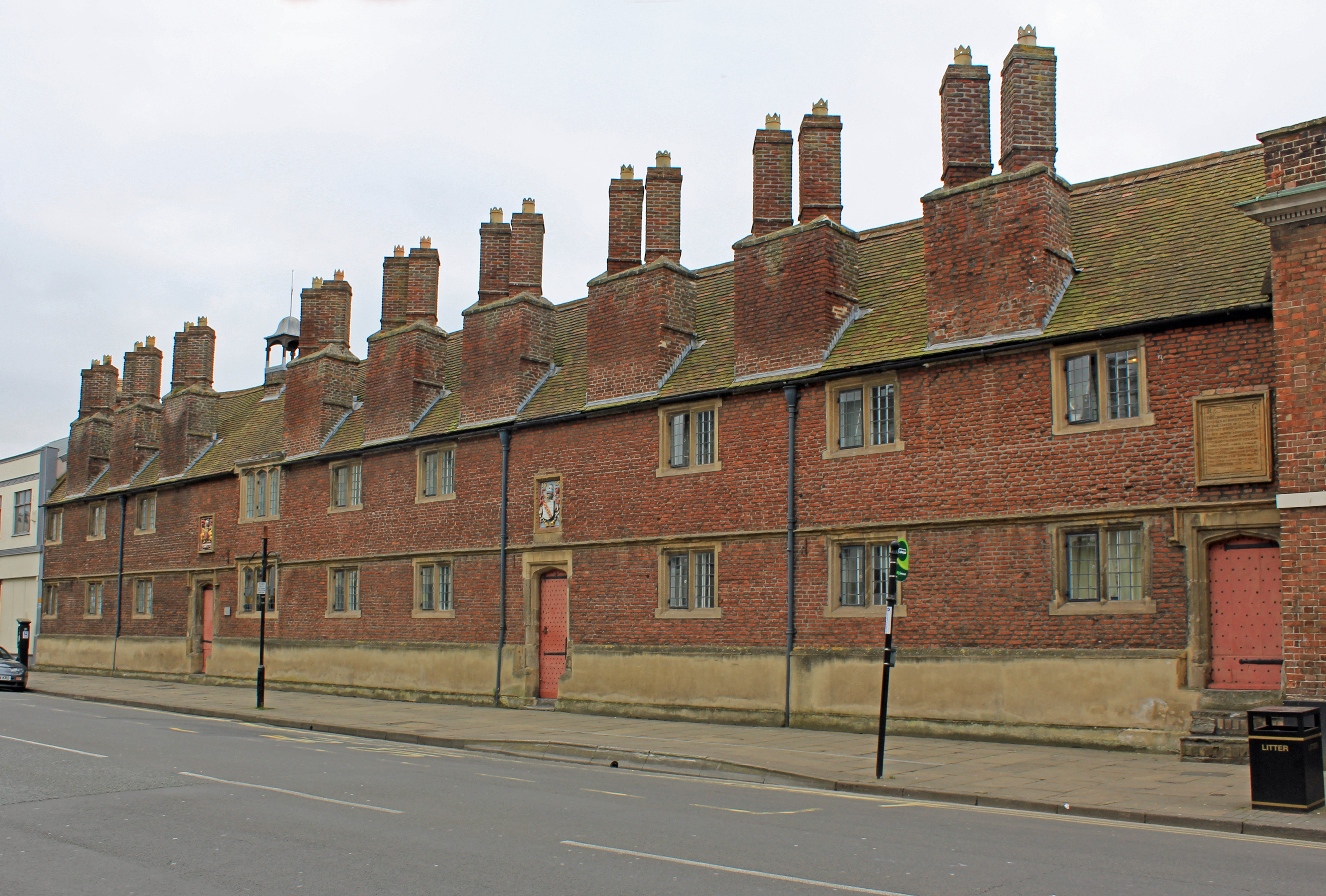 Gray's Almshouses in Taunton, a Grade I listed building, erected in 1635 by wealthy clothier Robert Gray, Citizen of the City of London and member of the Merchant Taylor's Company, born in Taunton. Above the central door are shown his arms: Barry of six azure and argent, on a bend gules three annulets or being a differenced version of the arms of the prominent and ancient Anglo-Norman noble de Grey family, branches of which held many peerage and other titles in England, including Baron Grey de Wilton (1295), Baron Ferrers of Groby (1299), Baron Grey of Codnor (1299,1397), Baron Grey de Ruthyn (1324), Earl of Tankerville (1419, 1695), Earl of Huntingdon (1471), Marquess of Dorset (1475), Baron Grey of Powis (1482), Duke of Suffolk (1551), Baronet Grey of Chillingham (1619); Baron Grey of Werke (1623/4), Earl of Stamford (1628).